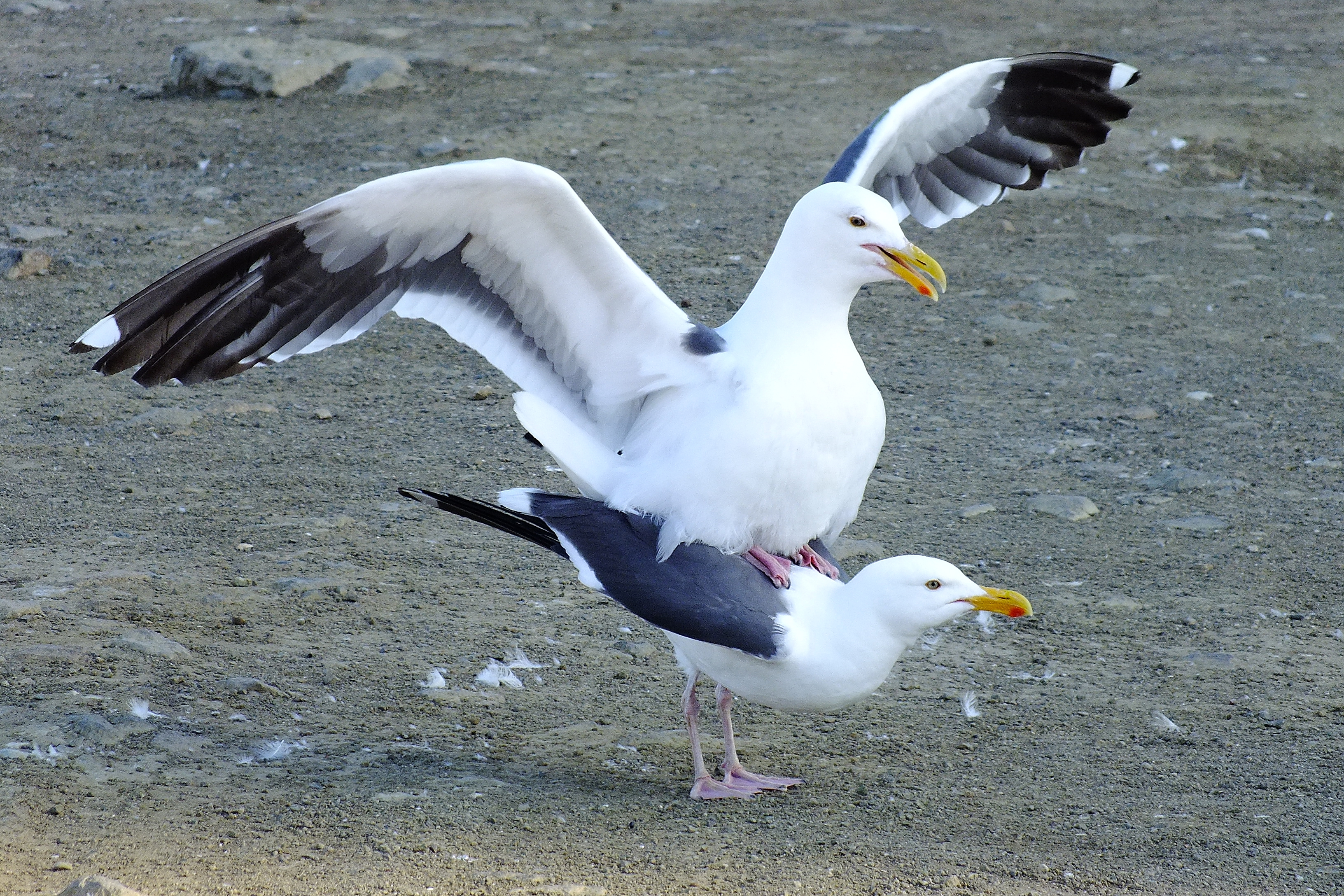 Western Gulls mating in Morro Bay, California, USA.